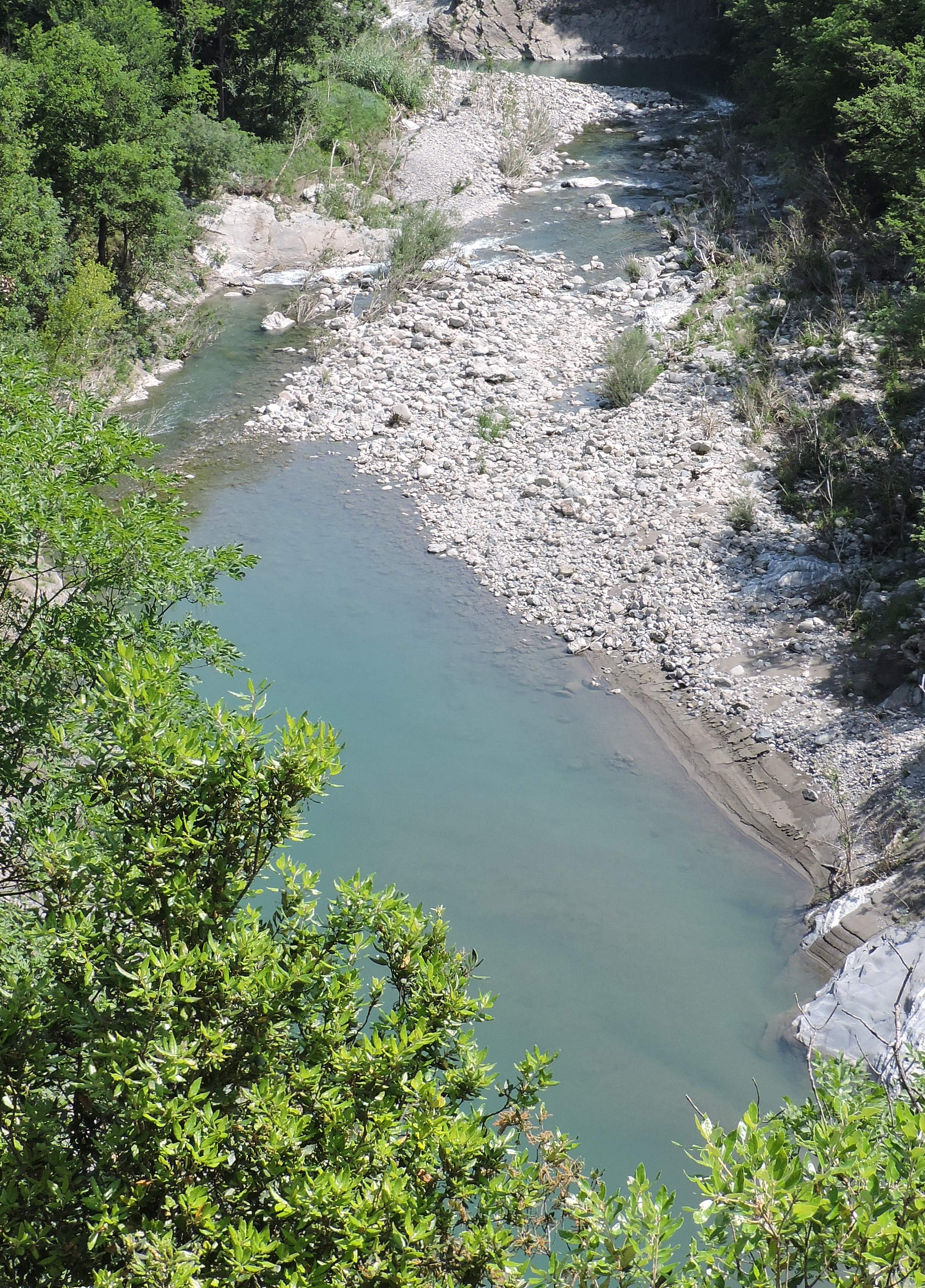 Arroscia creek near Ranzo (IM, Italy)